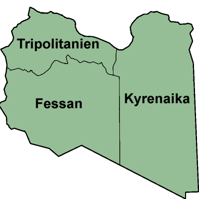 Map of the three Governorates of Libya. After independence in 1951, until 1963, Libya was divided into three governorates (muhafazat): Cyrenaica, Tripolitania, and Fezzan.